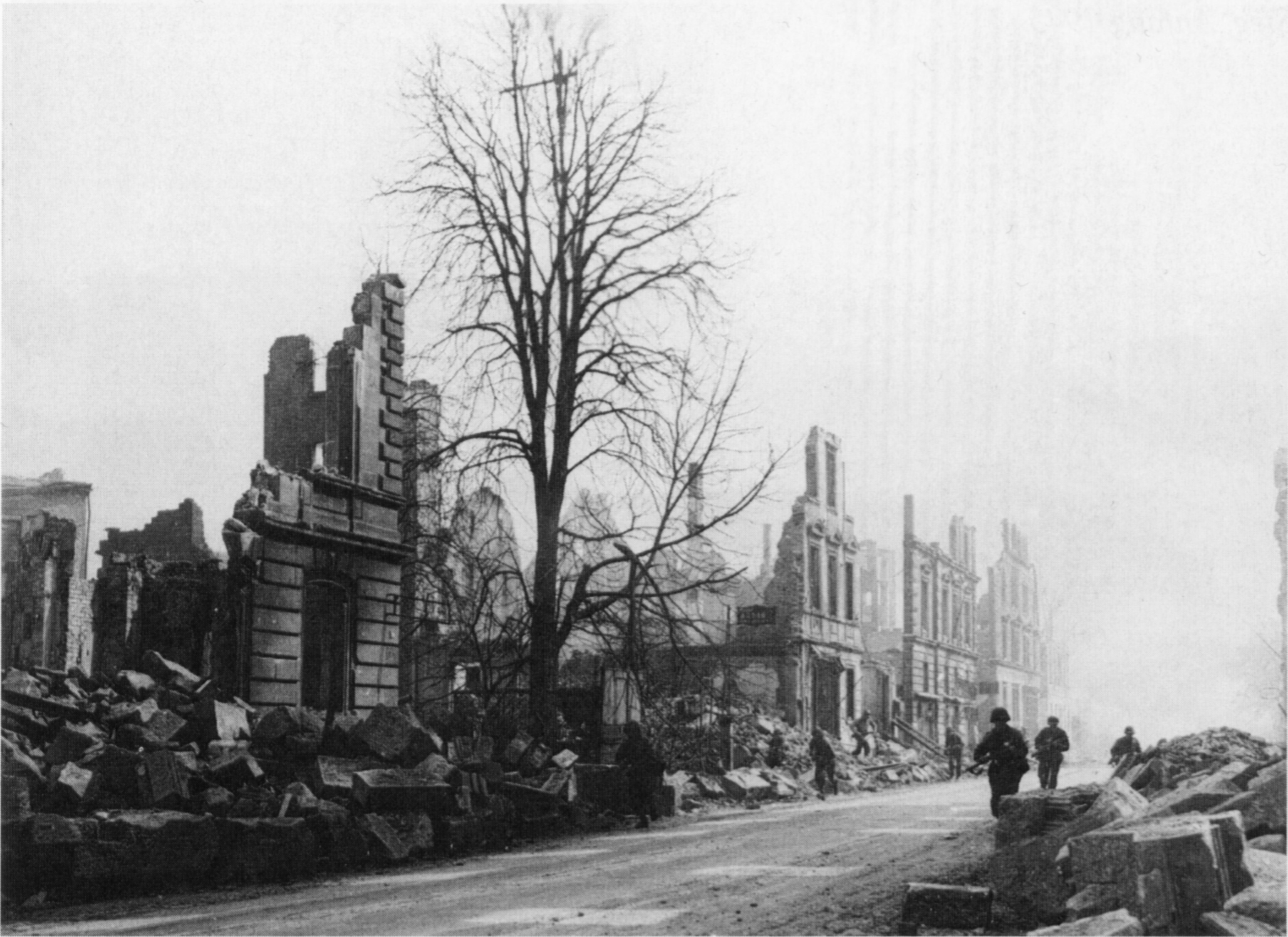 Street fighting in destroyed Heilbronn in April 1945: US soldiers of the 100th Infantry (“Century”) Division, 399th Infantry Regiment, 1st Battalion